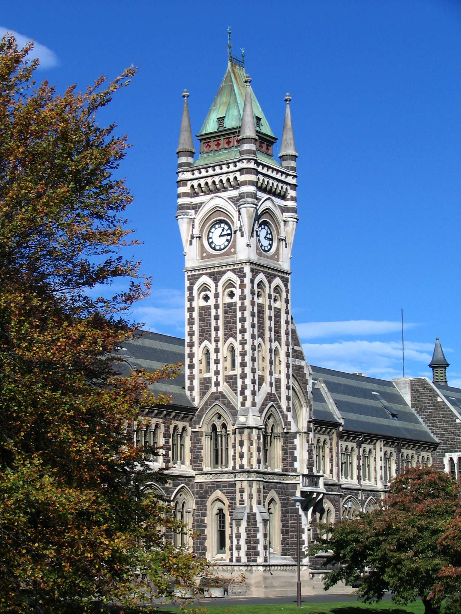 University of Otago Registry Building in Dunedin, New Zealand